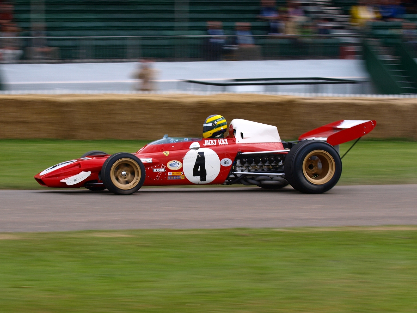 Bruno Senna driving Jacky Ickx's Ferrari 312B2 at the 2008 Goodwood Festival of Speed.